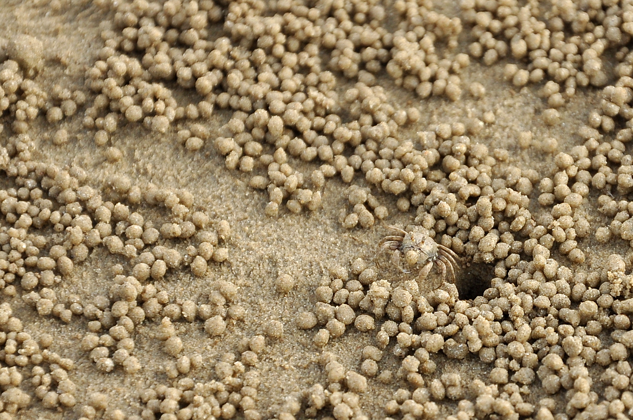 Sand bubbler crabs (Scopimera) in Tanjung Aru Beach, near Kota Kinabalu, in Sabah, Malaysia. By looking carefully, a small sand ball can be seen being made on the crabs mouth while it feeds. This photo is a crop of file: Scopimera in Tanjung Aru Beach 2.